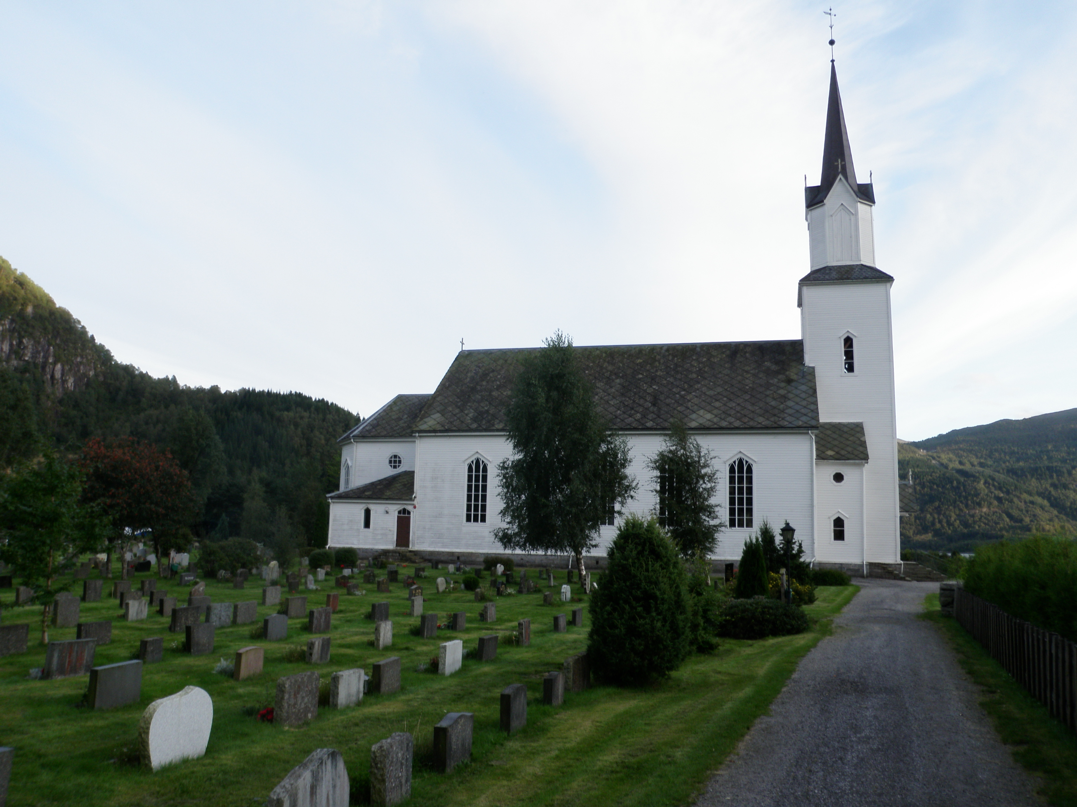 Photo of the Naustdal Church